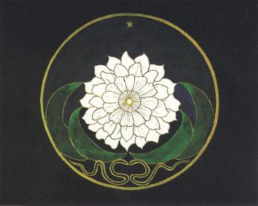 Mandala made by a Jung's unknown patient before 1929 (public domain)